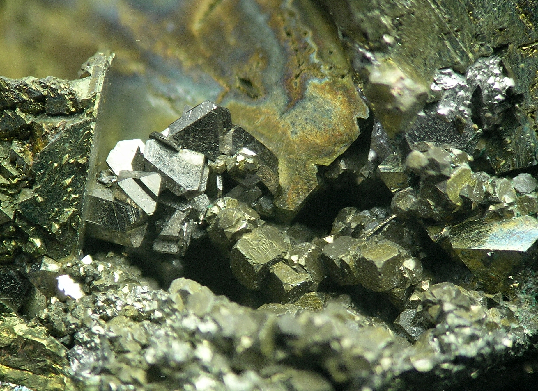 Linnaeite and Chalcopyrite (Field of view: 7,2 mm) Locality: Victoria Mine, Littfeld, Siegerland, North Rhine-Westphalia, Germany Original description: historic specimen of Linnaeite with Chalcopyrite with an old label from the K. S. Mineralien-Niederlage zu Freiberg; field of view 7,2 mm; photo and collection Joachim Esche